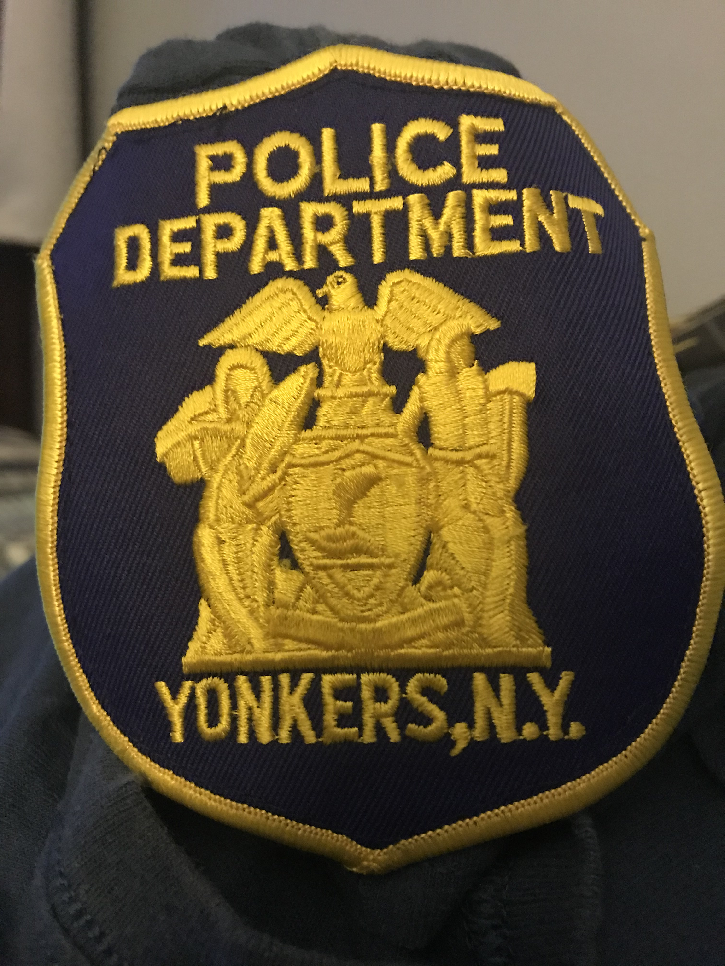 This is the current patch of the Yonkers Police Department